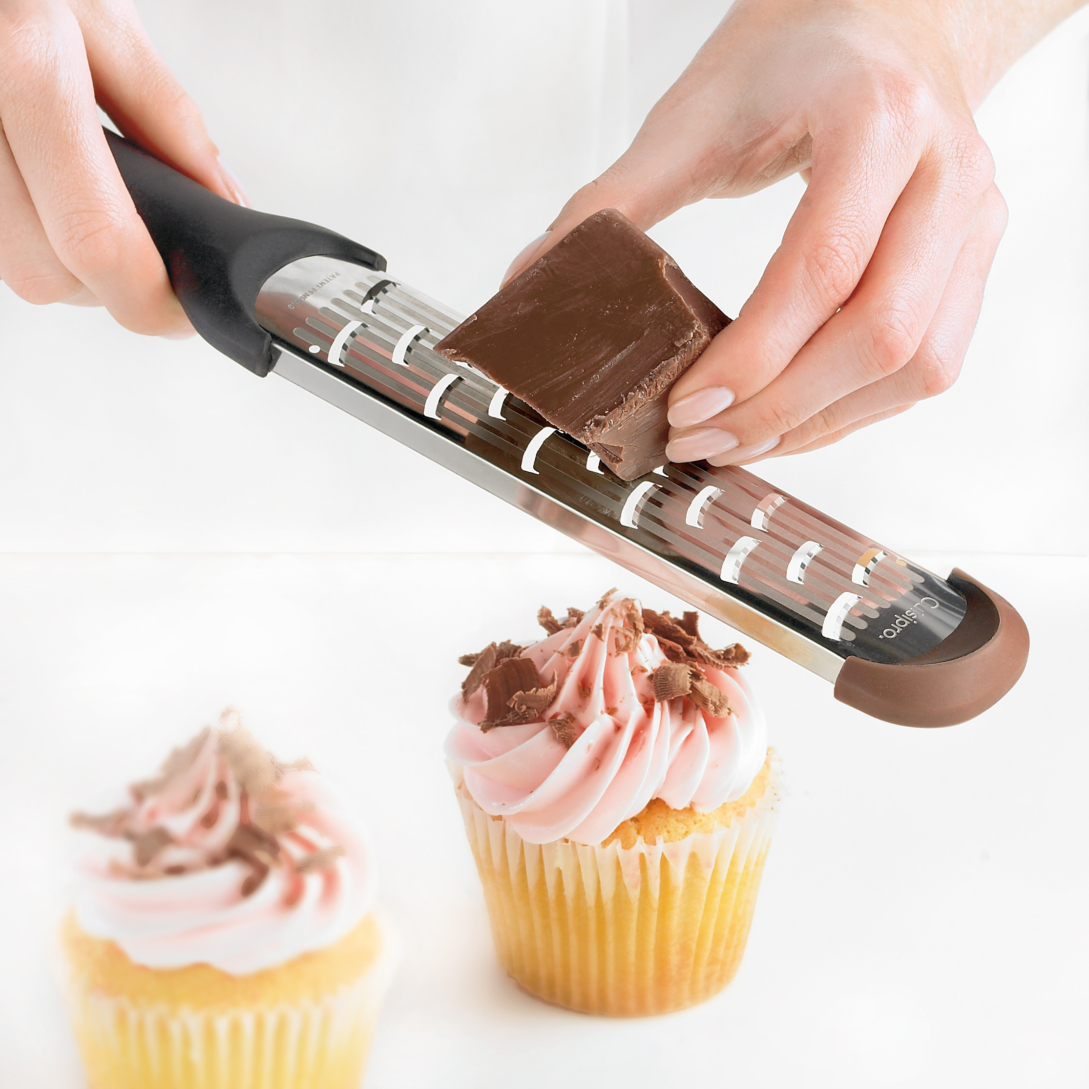 Rasp grating Chocolate